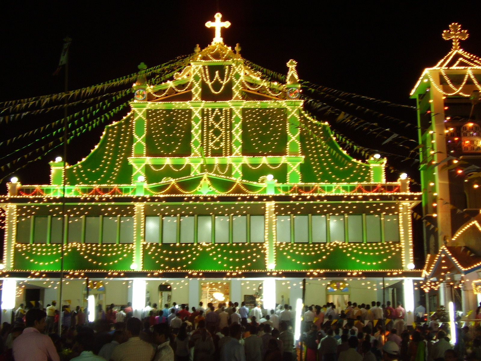 Milagres Church, South Canara, Photo by User:Bailbeedu.